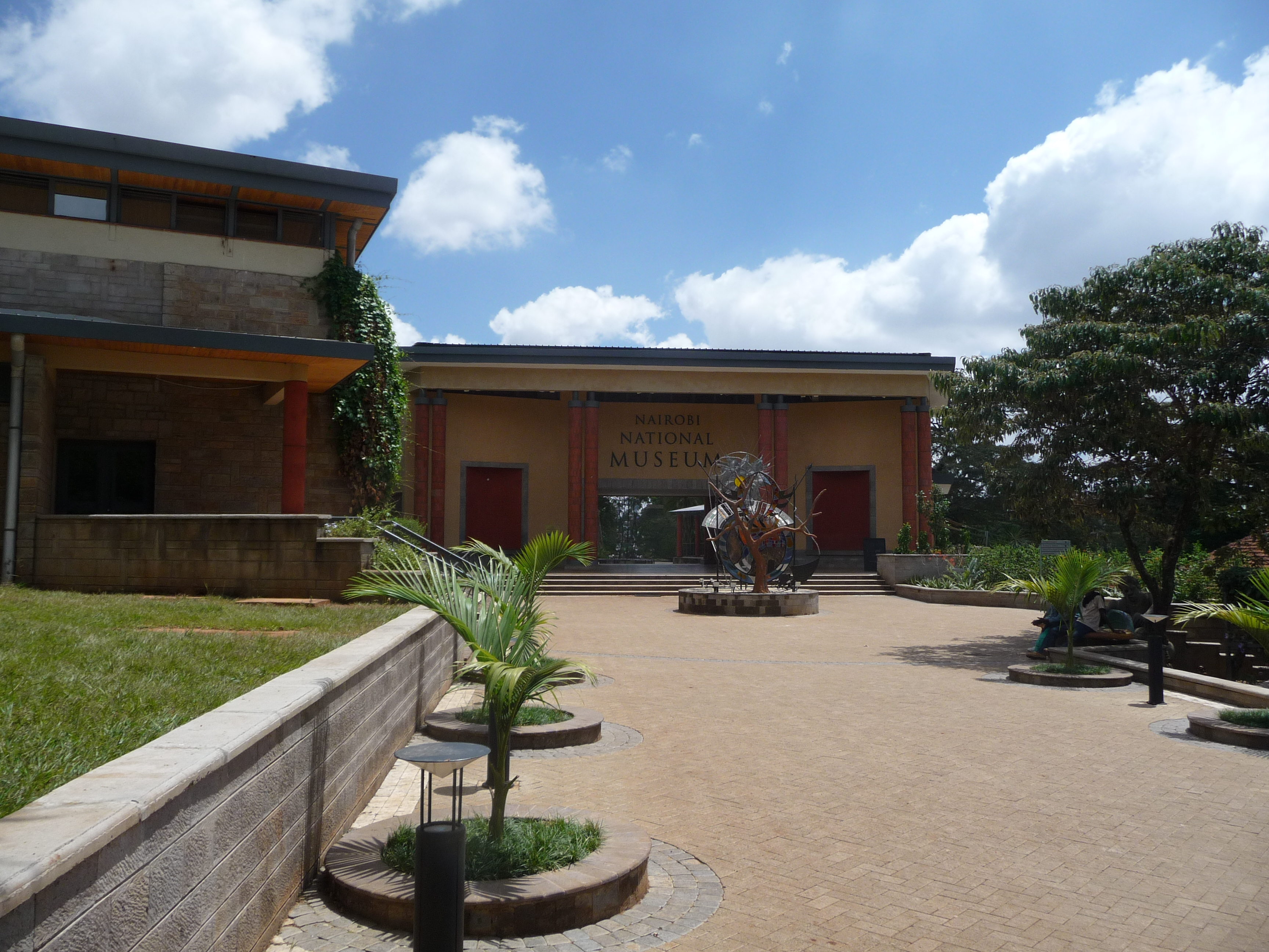 Nairobi National Museum, january 2009